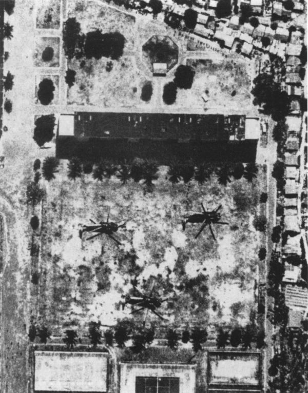 Aerial photo of LZ Hotel on 12 April 1975, shows 3 USMC CH-53s on the LZ